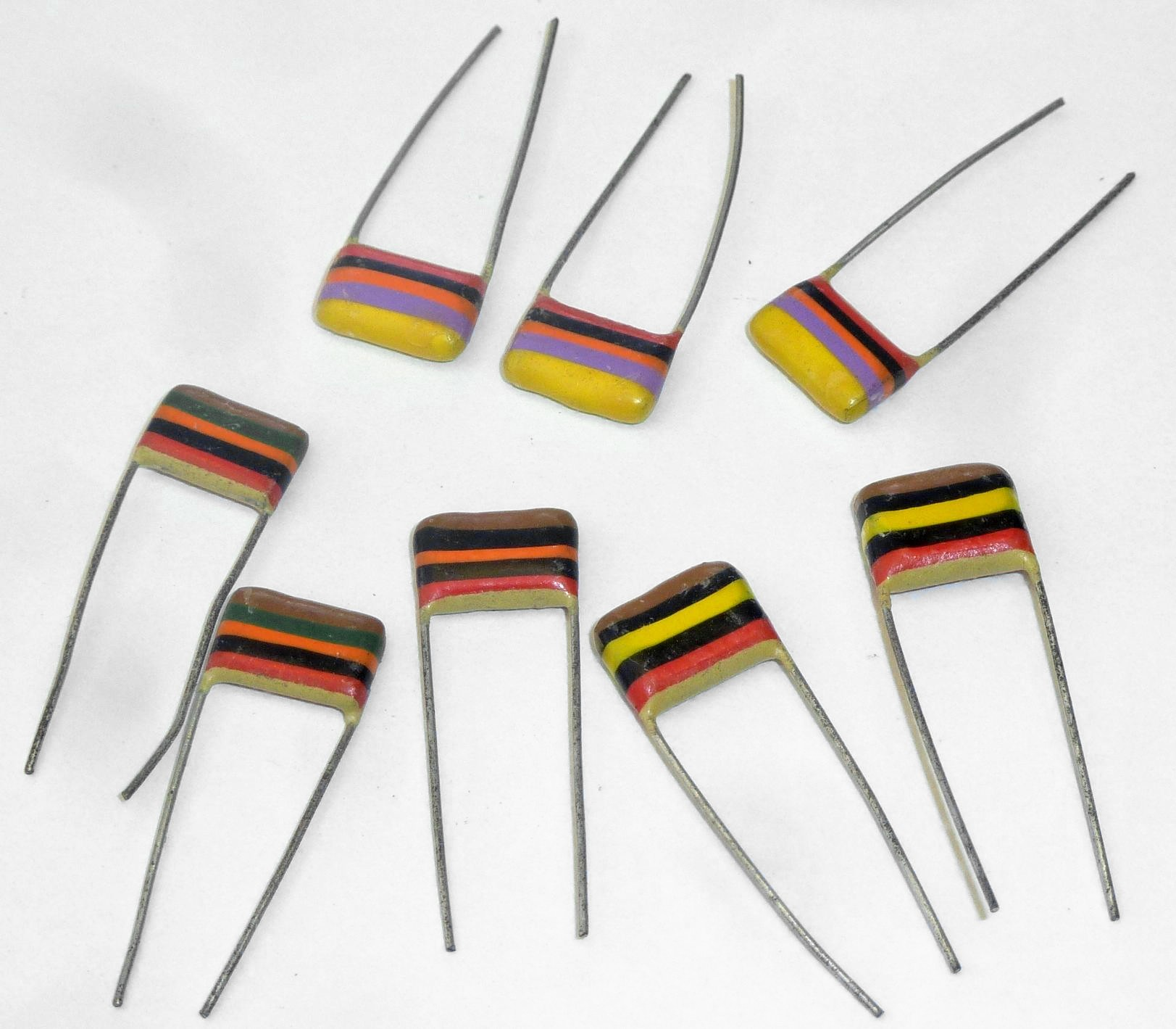 The distinctive Mullard (and Phillips) C280 polyester capacitors, with their striped colour codes. A familiar sight in the 1960s and '70s.